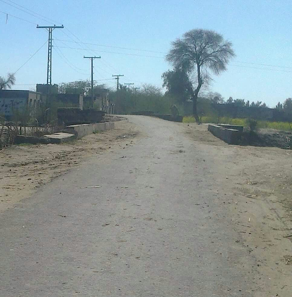 I also Uploaded this Photo on Botala Facebook Page & on website